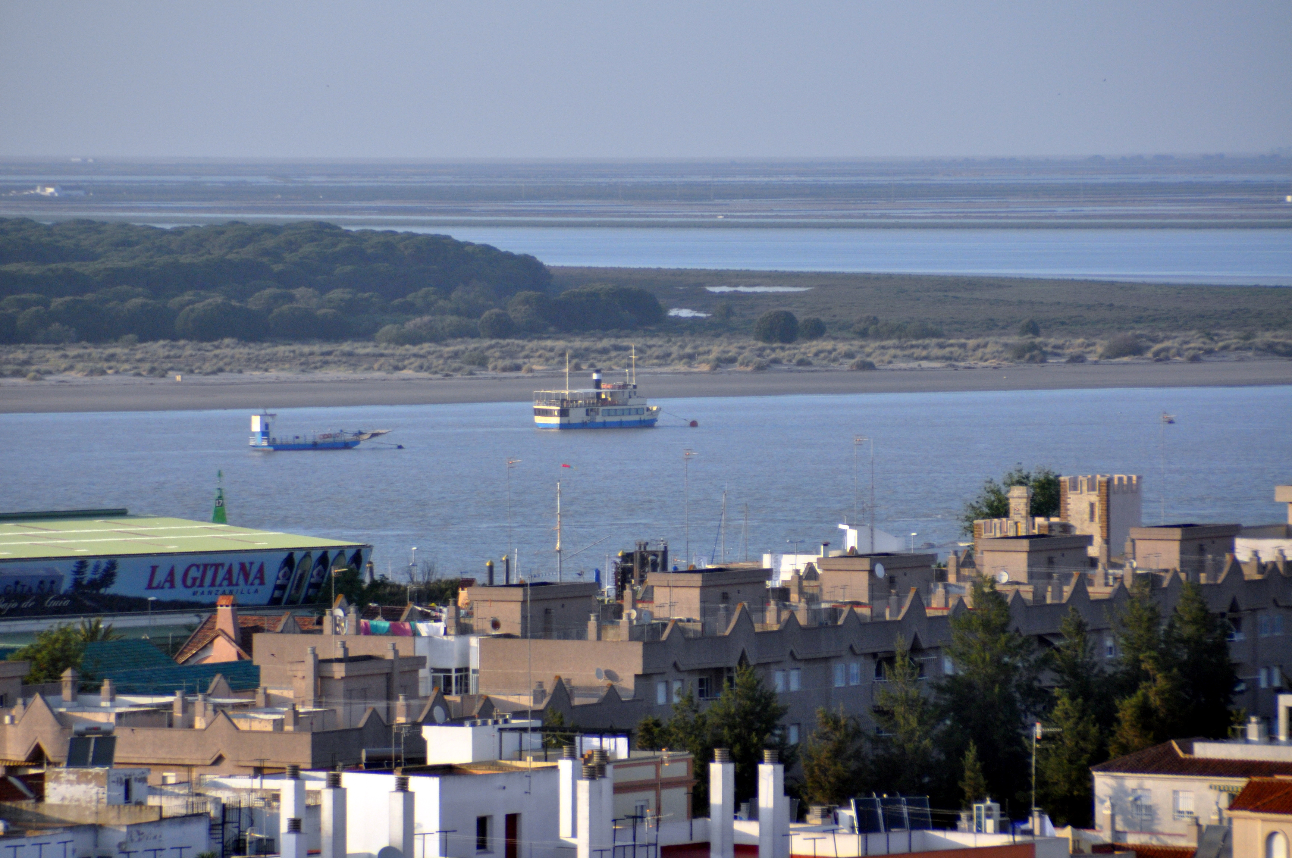 Boats on the Guadalquivir River in Sanlúcar de Barrameda, Cádiz, Spain; in the background, Las Marismas ("the marshes"). Picture taken from the top floor of Guadalquivir Hotel.